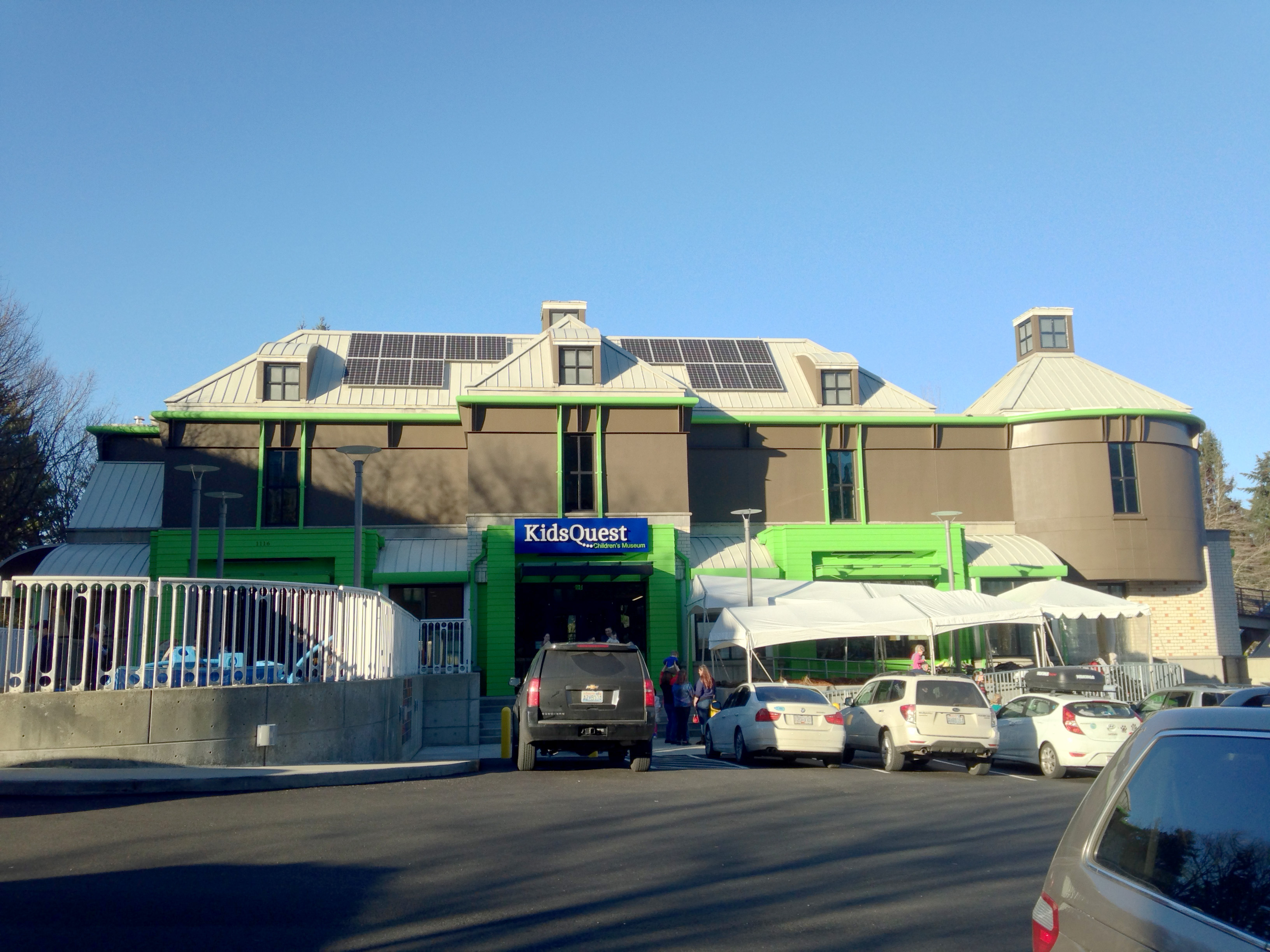 Front façade of KidsQuest Children's Museum, Bellevue, Washington, USA, in its new location as of January 2017. This building was previously the site of the Rosalie Whyel Museum of Doll Art.